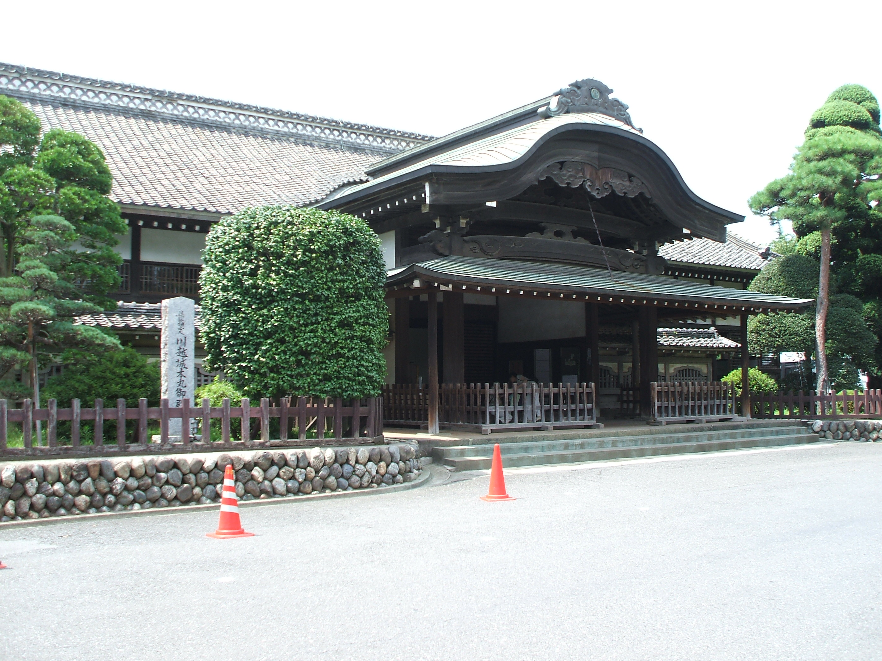 Kawagoe castle photo by Twilight2640